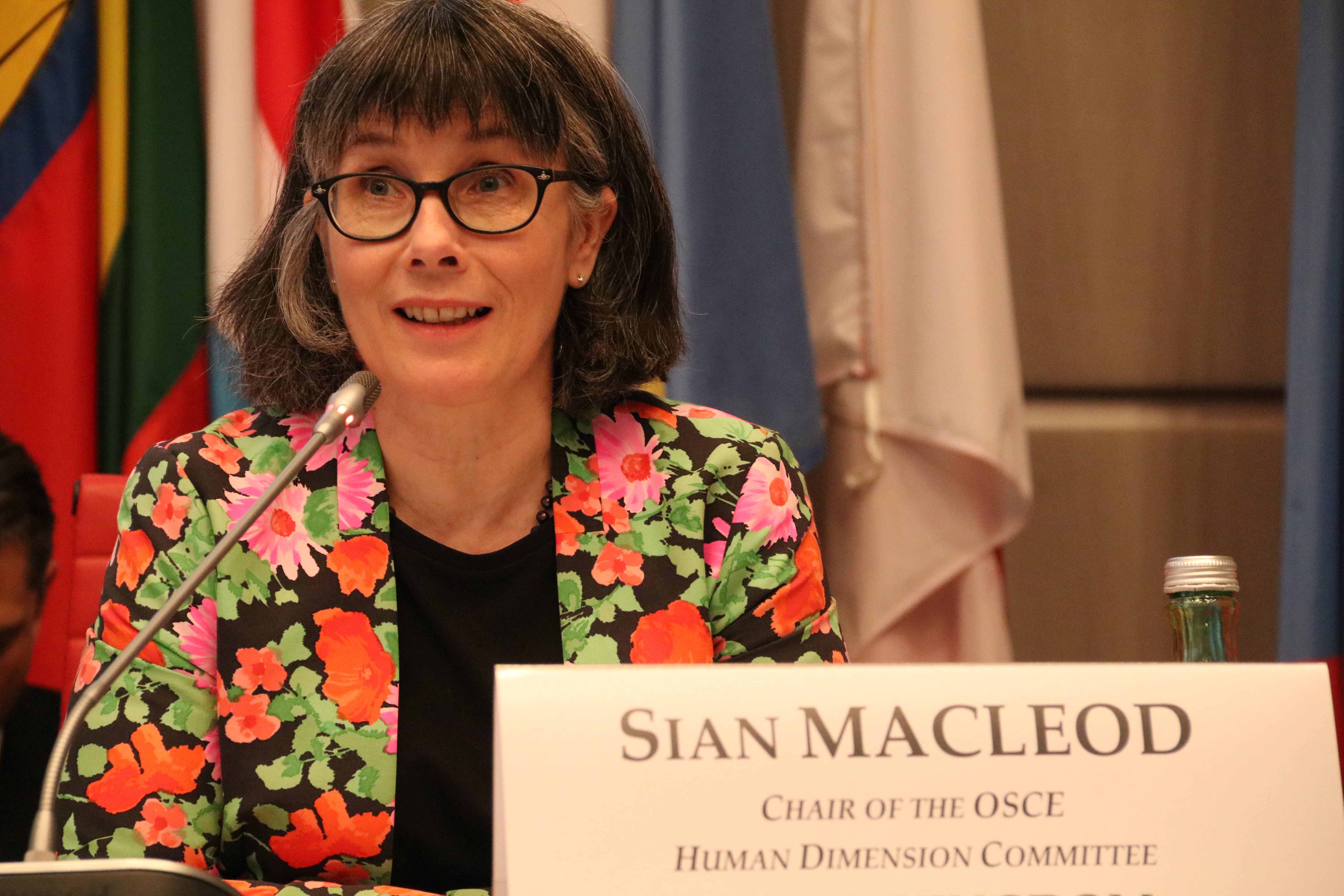 Permanent Representative of the United Kingdom to the OSCE Sian MacLeod, Vienna, 23 February 2017 - Third Committee Meeting